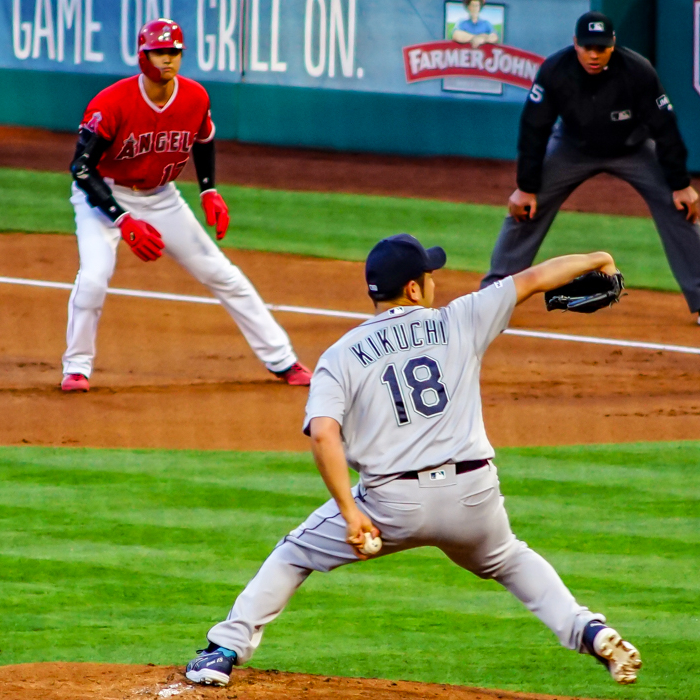 Yusei Kikuchi (pitcher) and Shohei Ohtani (runner)